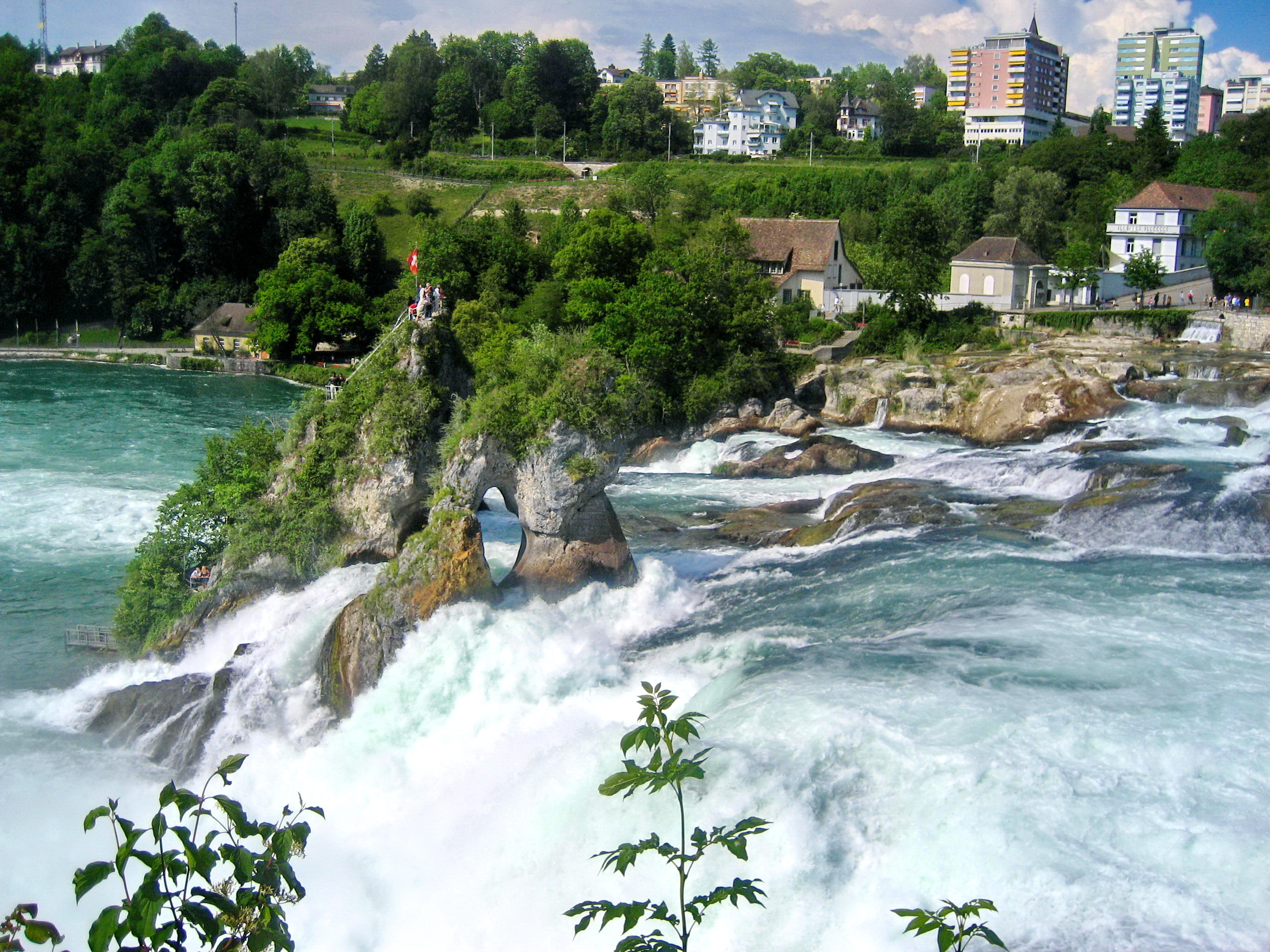 Rheinfall (Switzerland), as seen from Laufen-Uhwiesen in the canton of Zürich